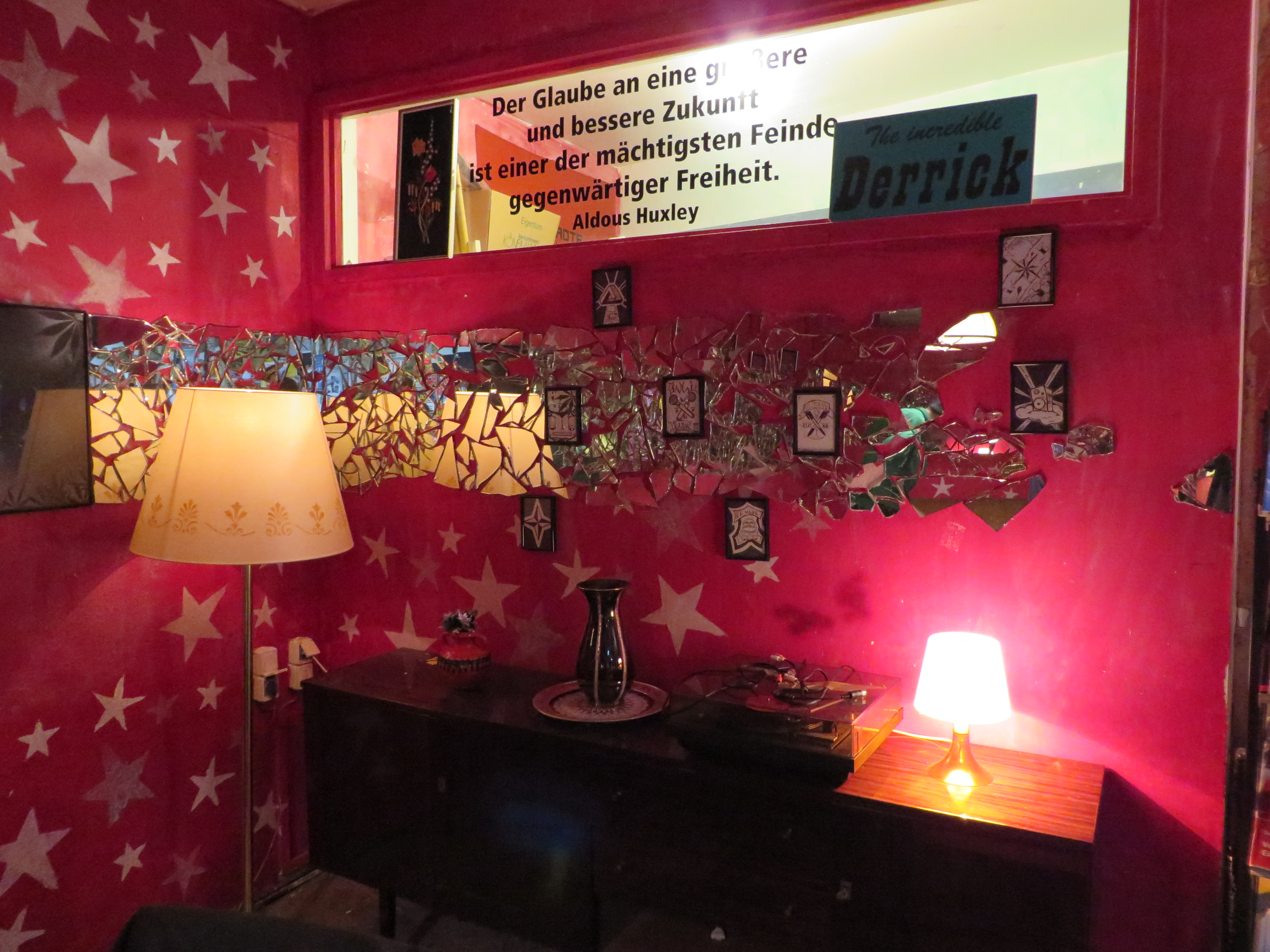 Social center Trotz Allem (in spite of everything) in Witten